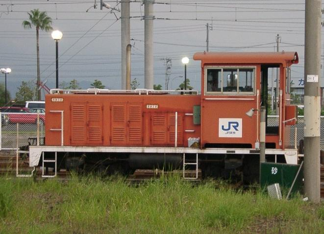 Kyosan Kogyo's 20t Switcher working at Kagoshima Sta., Kagoshima city, Japan.